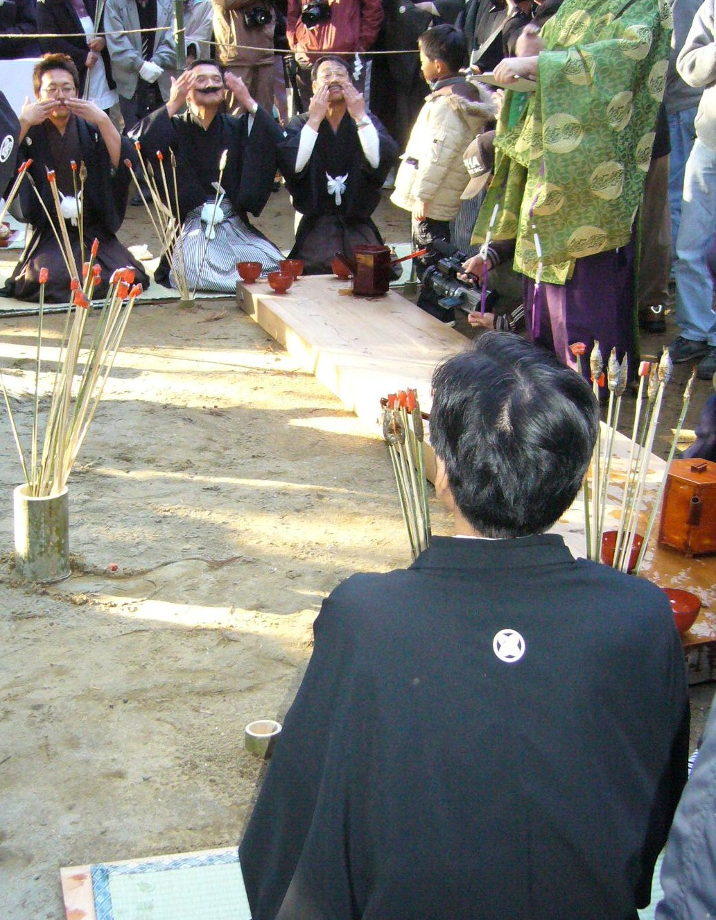 Festival of stroke one's mustache & drink SAKE,higenade-matsuri,katori-city,japan